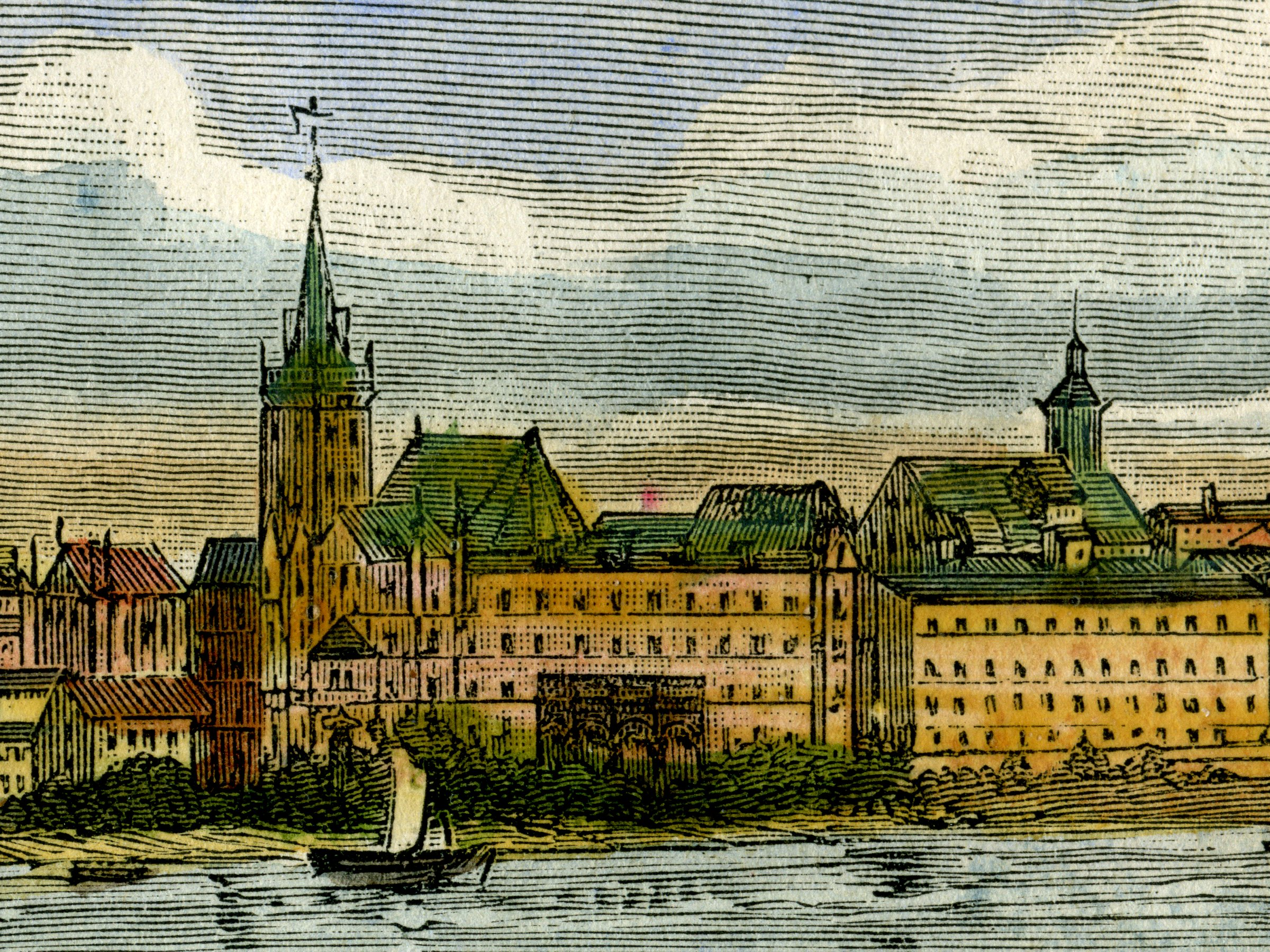 Church St. Mary and town hall in Frankfurt (Oder) ca. 1860 from the Book L'Allemagne illustrée of Victor Adolphe Malte-Brun.